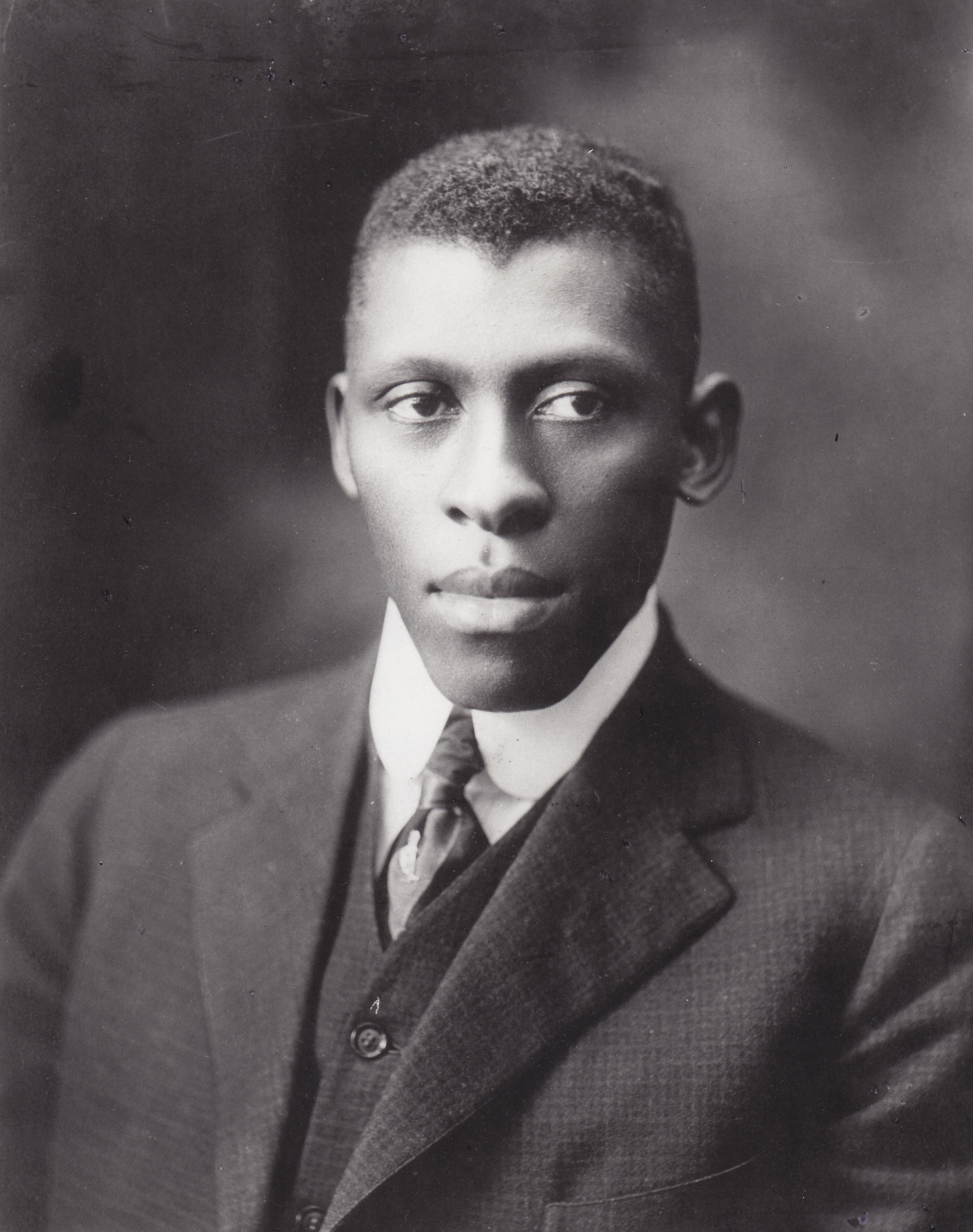 Photo of Thomas Monroe Campbell circa 1906